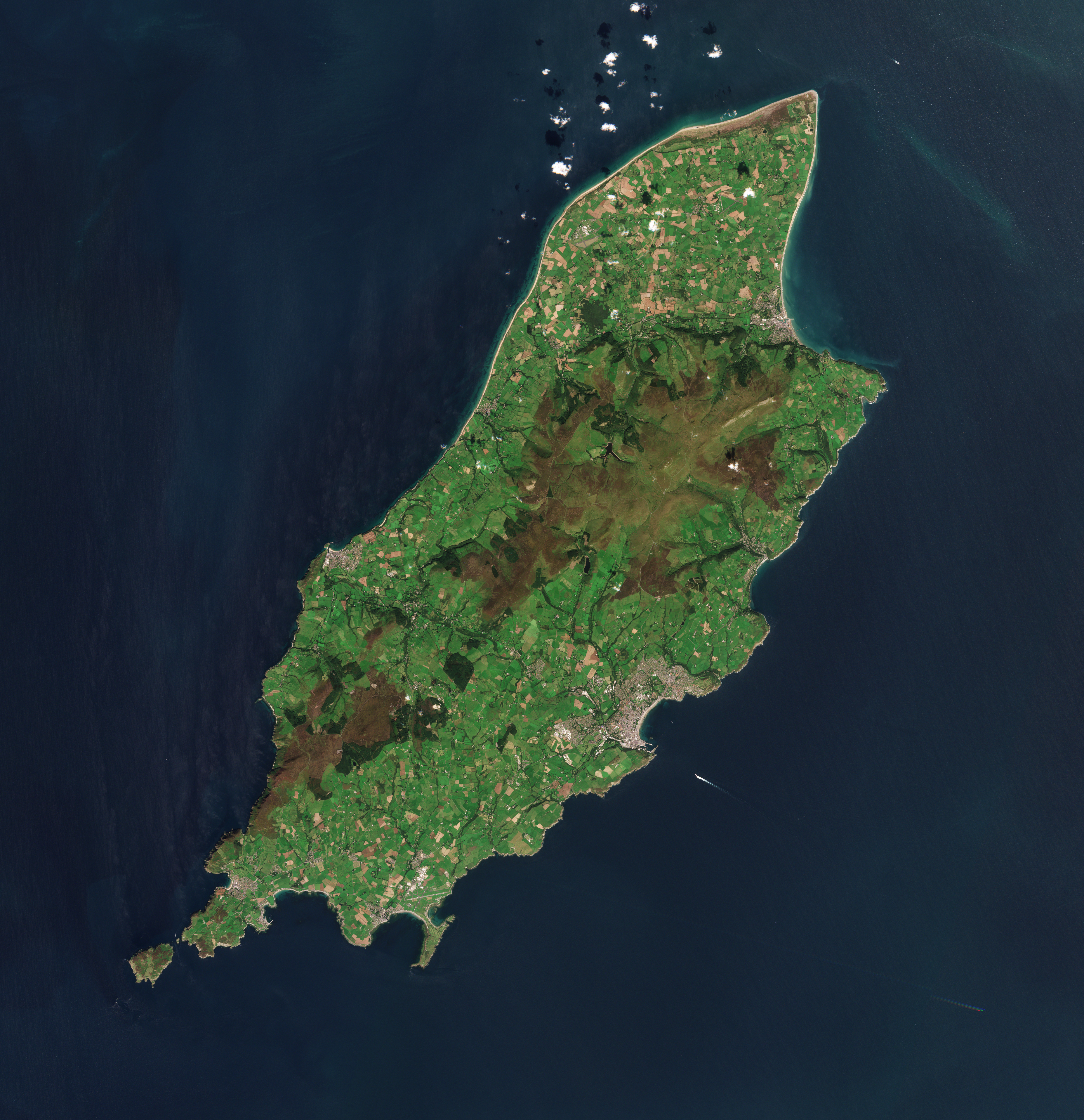 Date: 2018-08-31 Sensor: MSI on Sentinel-2A Resolution: 10m RGB Composites: True color, Band 4-3-2